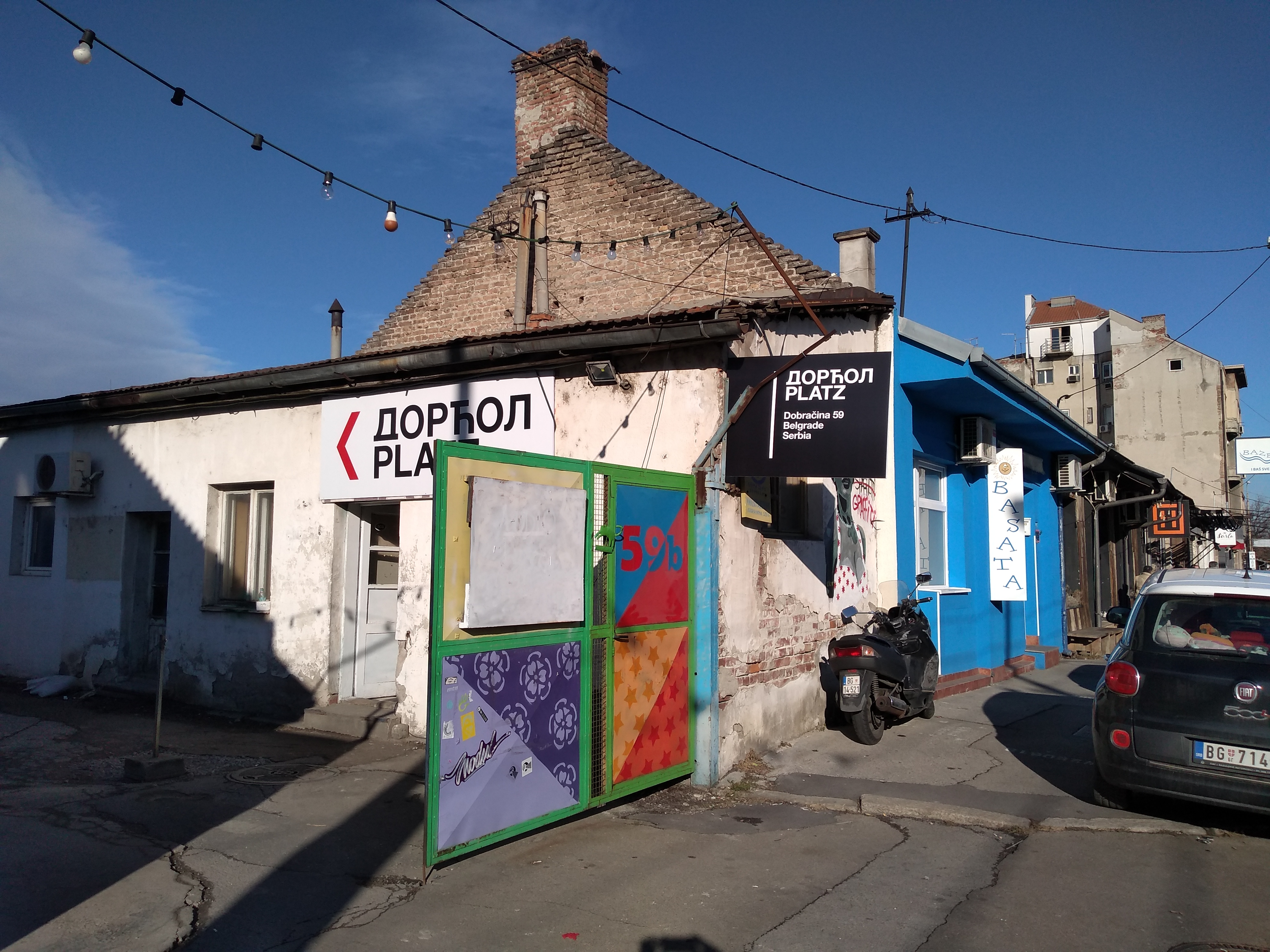 Chocolate festival in Belgrade